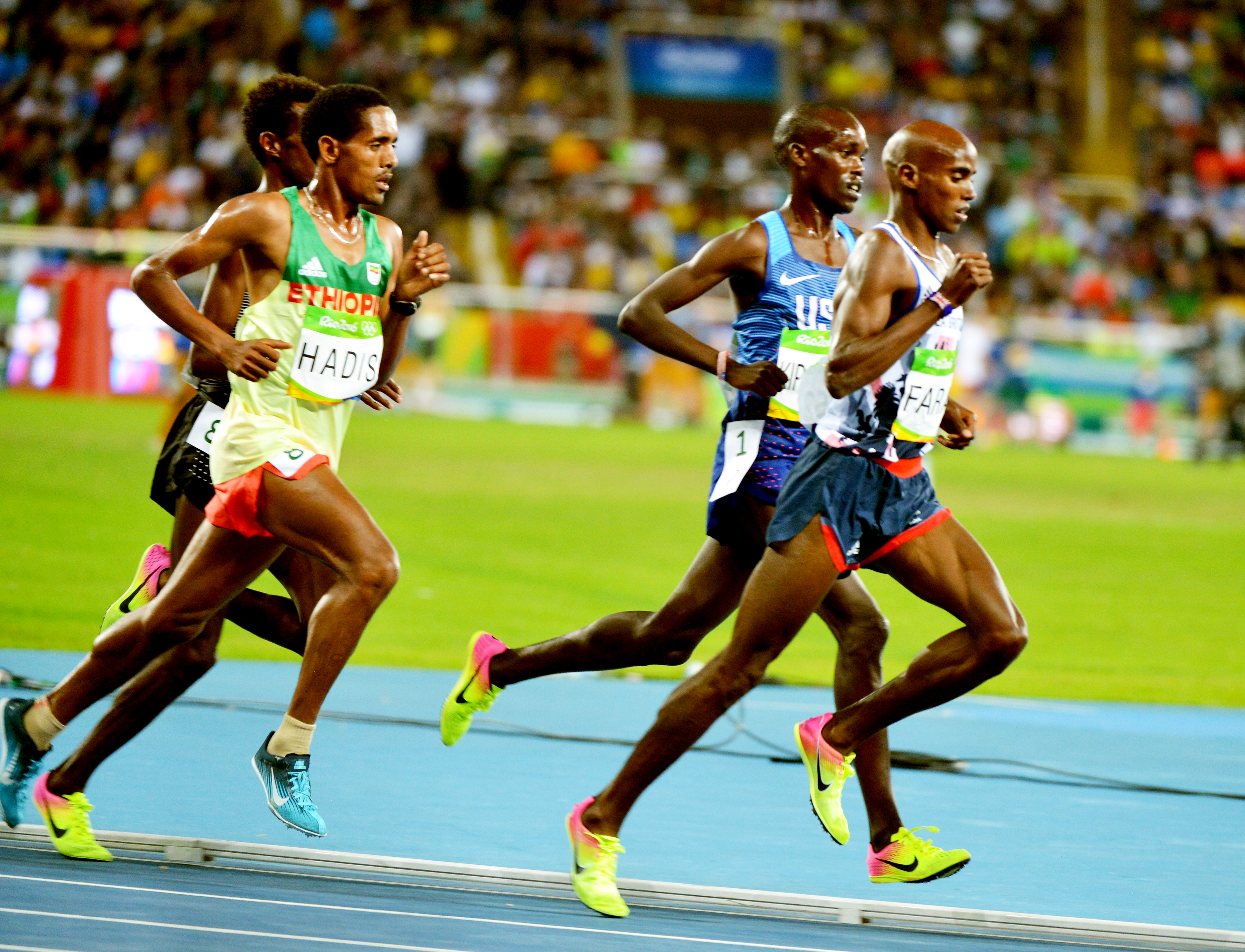 Spcs. Leonard Korir and Shadrack Kipchichir finish 14th and 19th respectively in the men's 3,000-meter run Aug. 13 at the 2016 Rio Olympic Games in Rio de Janeiro. Both Soldiers in the U.S. Army World Class Athlete Program turned in their season-best performaces, with Korir finishing in 27 minutes, 58.65 seconds and Kipchirchir clocked at 27:58.32. Mohamed Farah of Great Britain successfully defended his Olympic crown by winning the race in 27:05.17. Paul Kipnetech Tanui of Kenya took the silver in 27:05.64, and Tamirat Tola of Ethiopia claimed the bronze in 27:06.27. U.S. Army photo by Tim Hipps, IMCOM Public Affairs #SoldierOlympians #ArmyOlympians #ArmyTeam #TeamUSA #RoadToRio #ArmyStrong #GoArmy